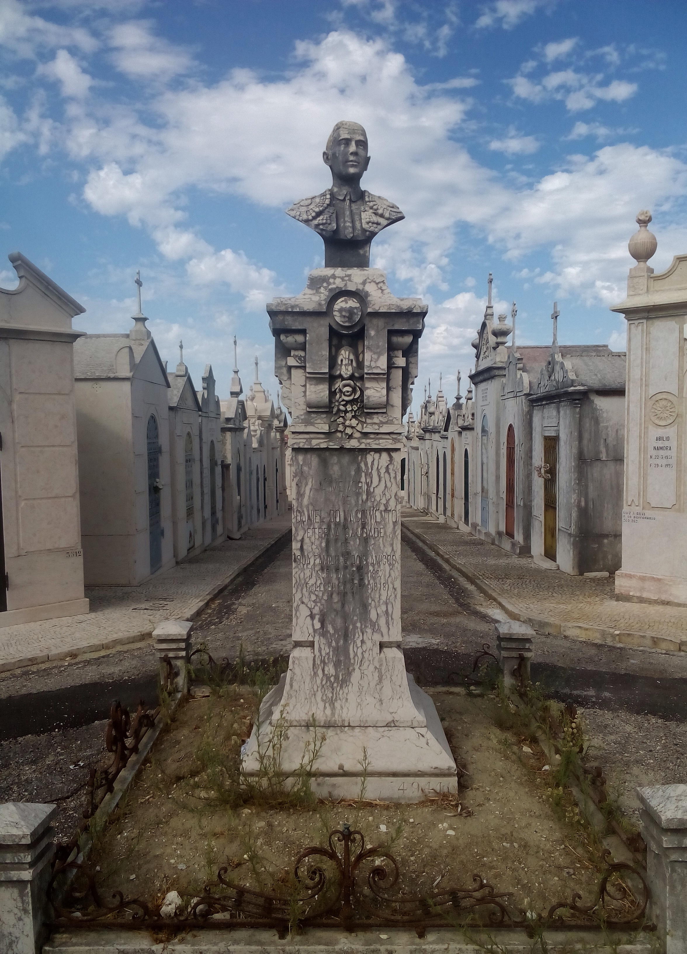 Grave of bullfighter Daniel do Nascimento; Alto de São João Graveyard, Lisbon, Portugal.